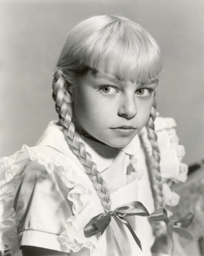 Promotional photograph of actor Patty McCormack (1956)